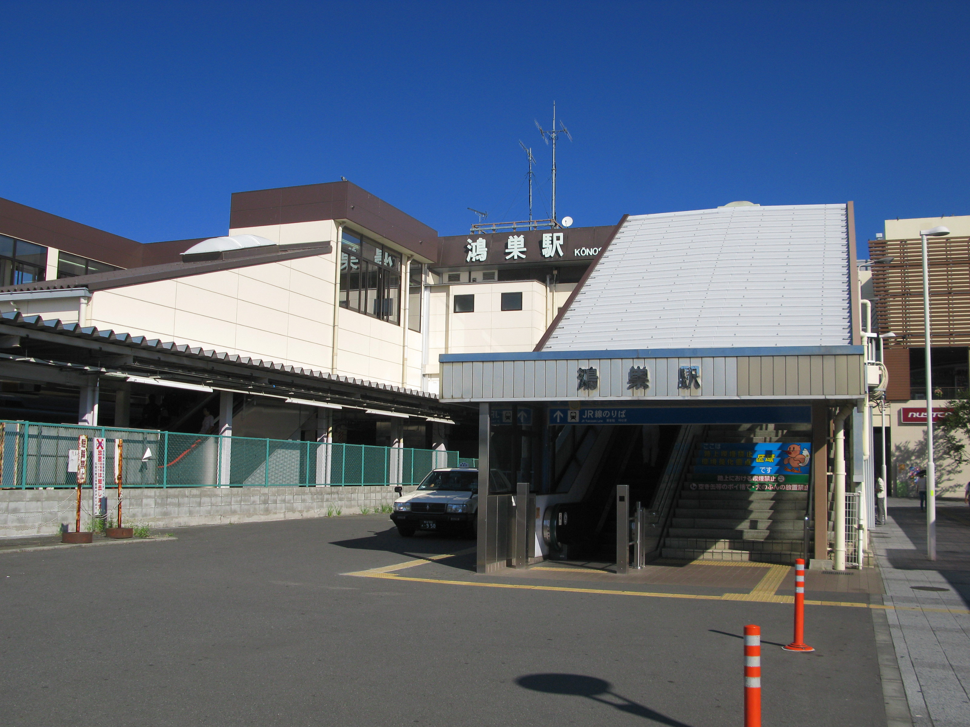 The east entrance at Konosu Station in Saitama Prefecture, Japan